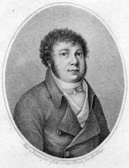 Depicted person: François Joseph Naderman